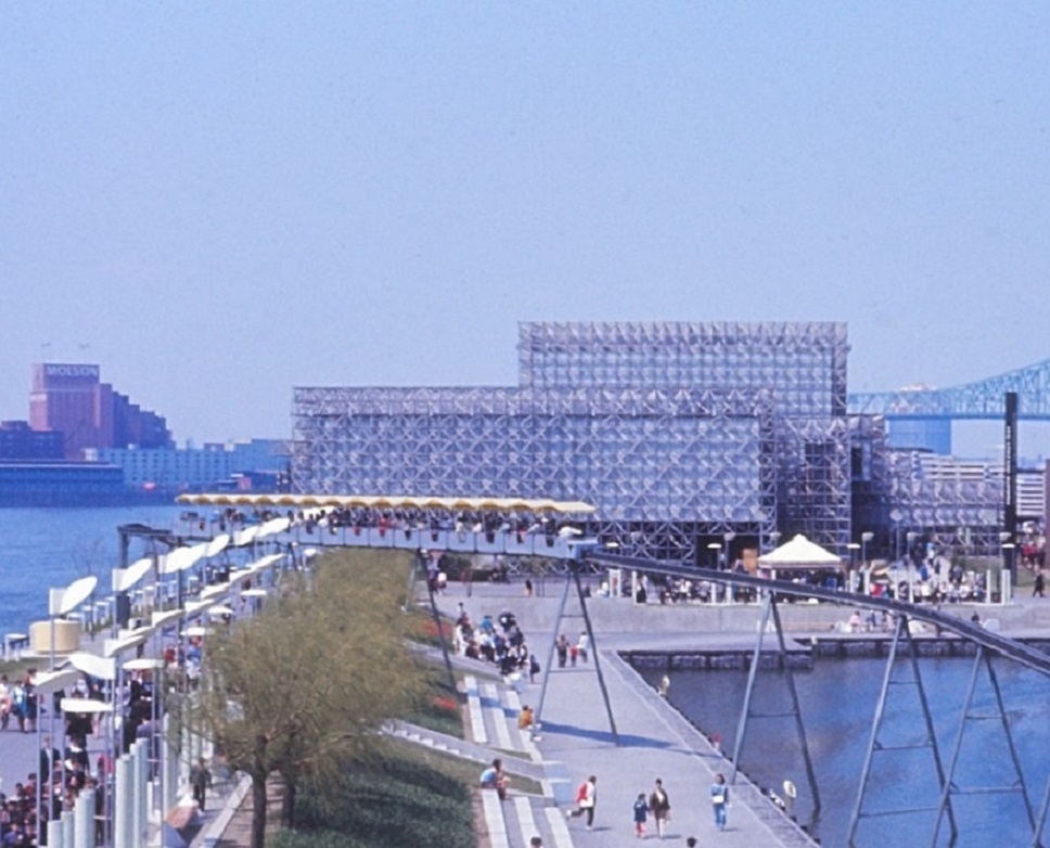 Expo 67, the pavilion of Netherlands and the Minirail, on Sainte-Hélène island. Expo 67, Montreal, Quebec, Canada, 1967.